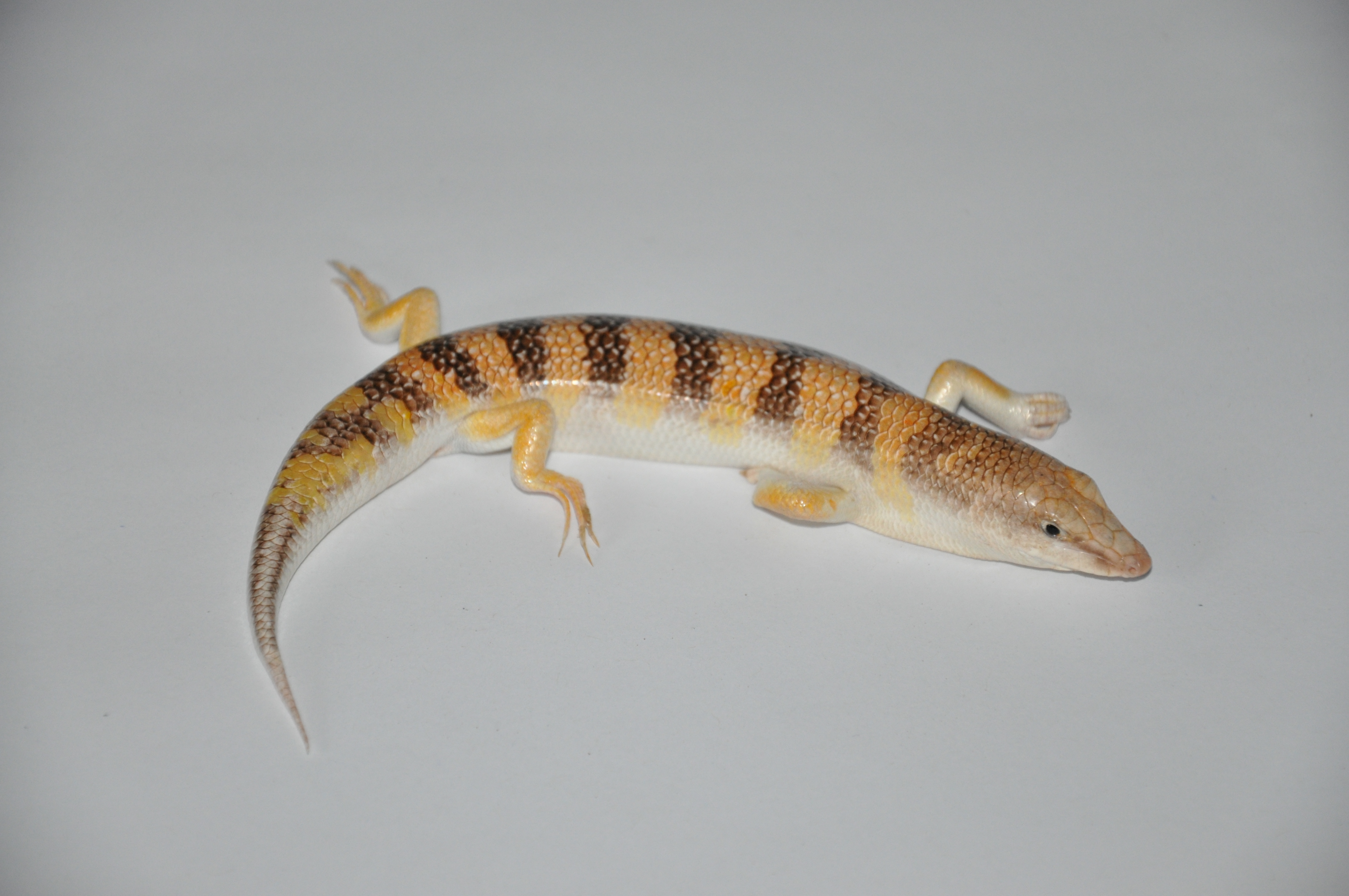 Male Sandfish, 4 years old